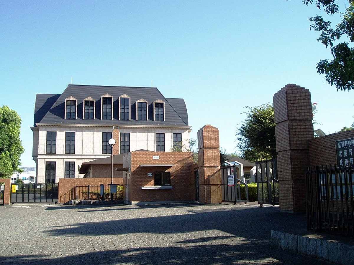 The library (left) and the main gate of Musashino Gakuin University located in Sayama, Saitama Pref., Japan.